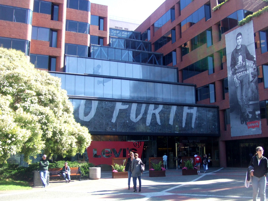 Picture of Levi's Plaza in San Francisco.